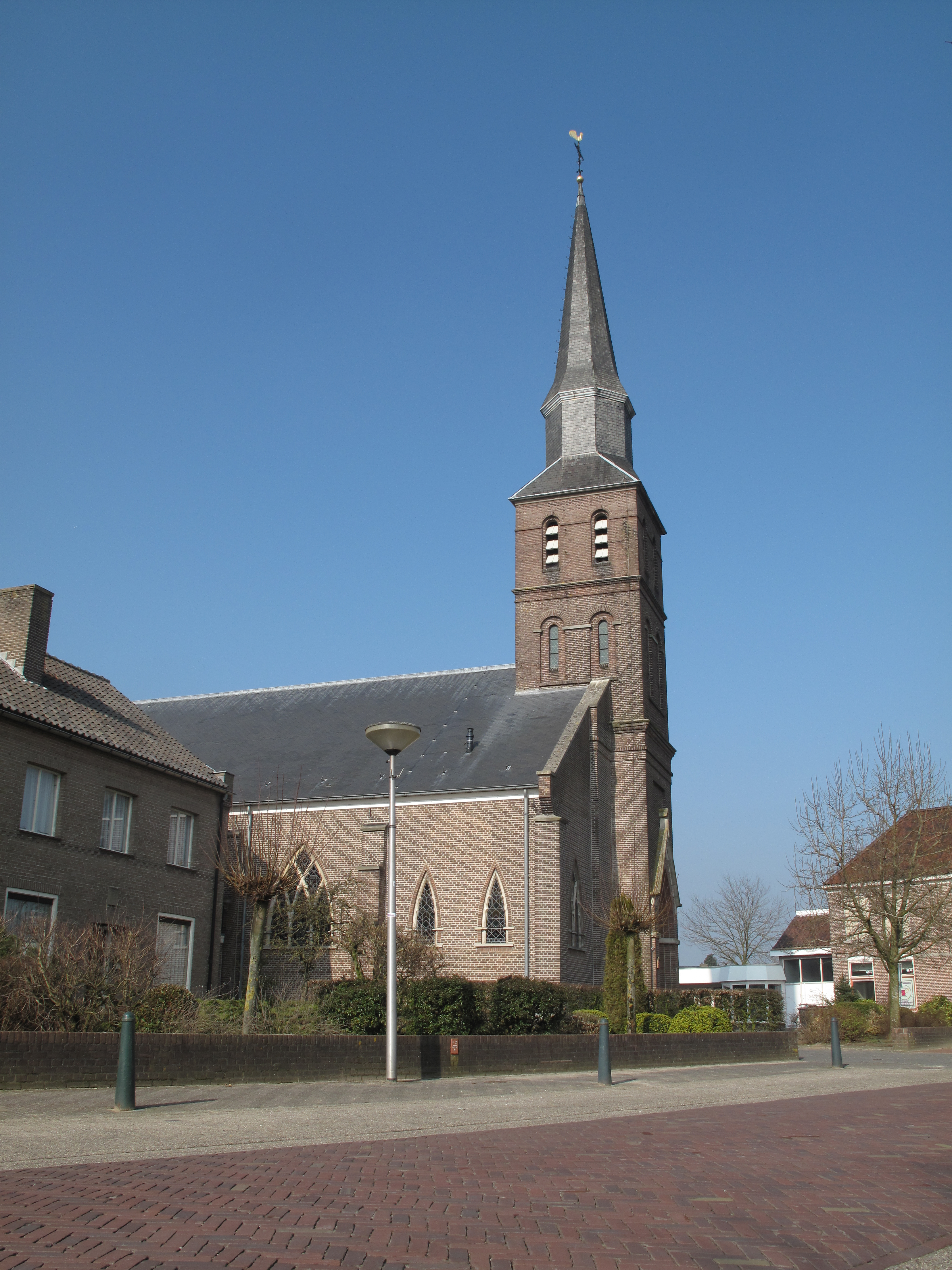 Hengelo, church: Heilige Wiilibrordkerk